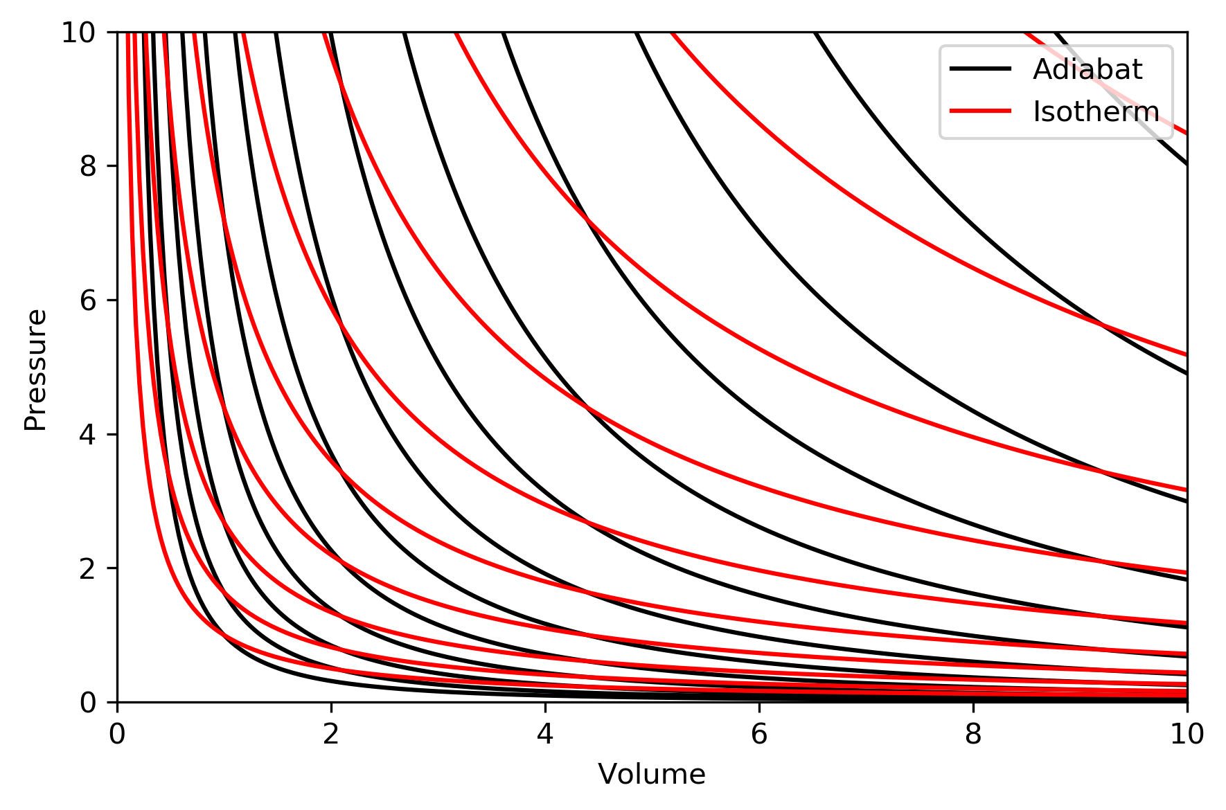 Superposition of Entropy and Temperature Contour Maps (on a P-V diagram). Isotherms are shown as red lines, and adiabats are shown as black lines. This image was made by AugPi. (c) AugPi, 2004. Licensed to Wikimedia.